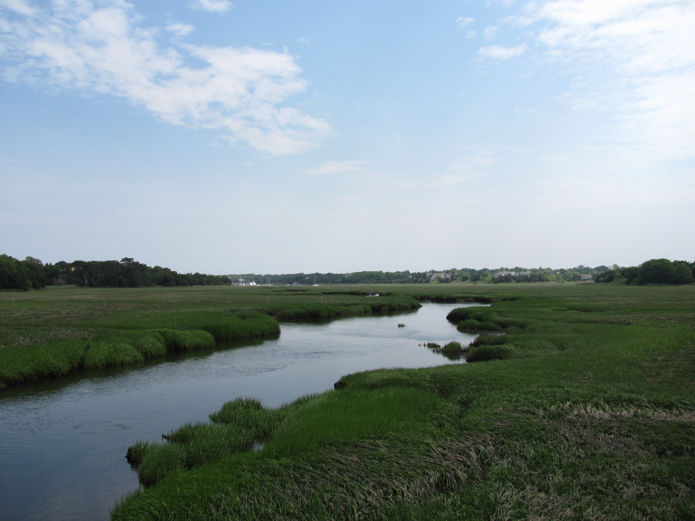 Sesuit Creek, East Dennis Massachusetts